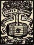 Image from the front matter of Gertrude Stein's Three Lives (1909)